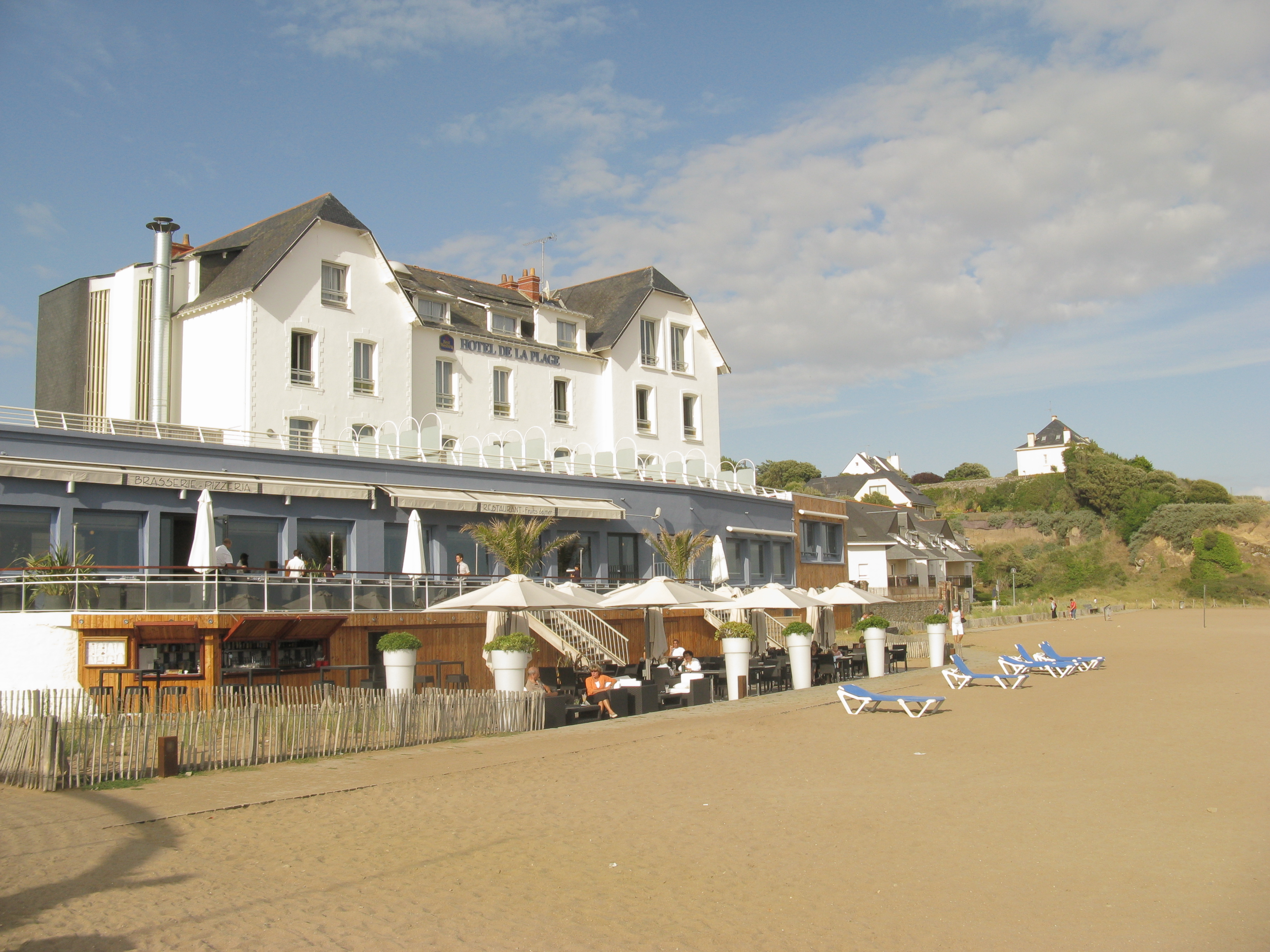 Hôtel de la Plage at Saint-Marc-sur-Mer (Saint-Nazaire), France.